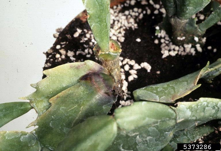 Phytophthora root and crown rots Phytophthora sp.